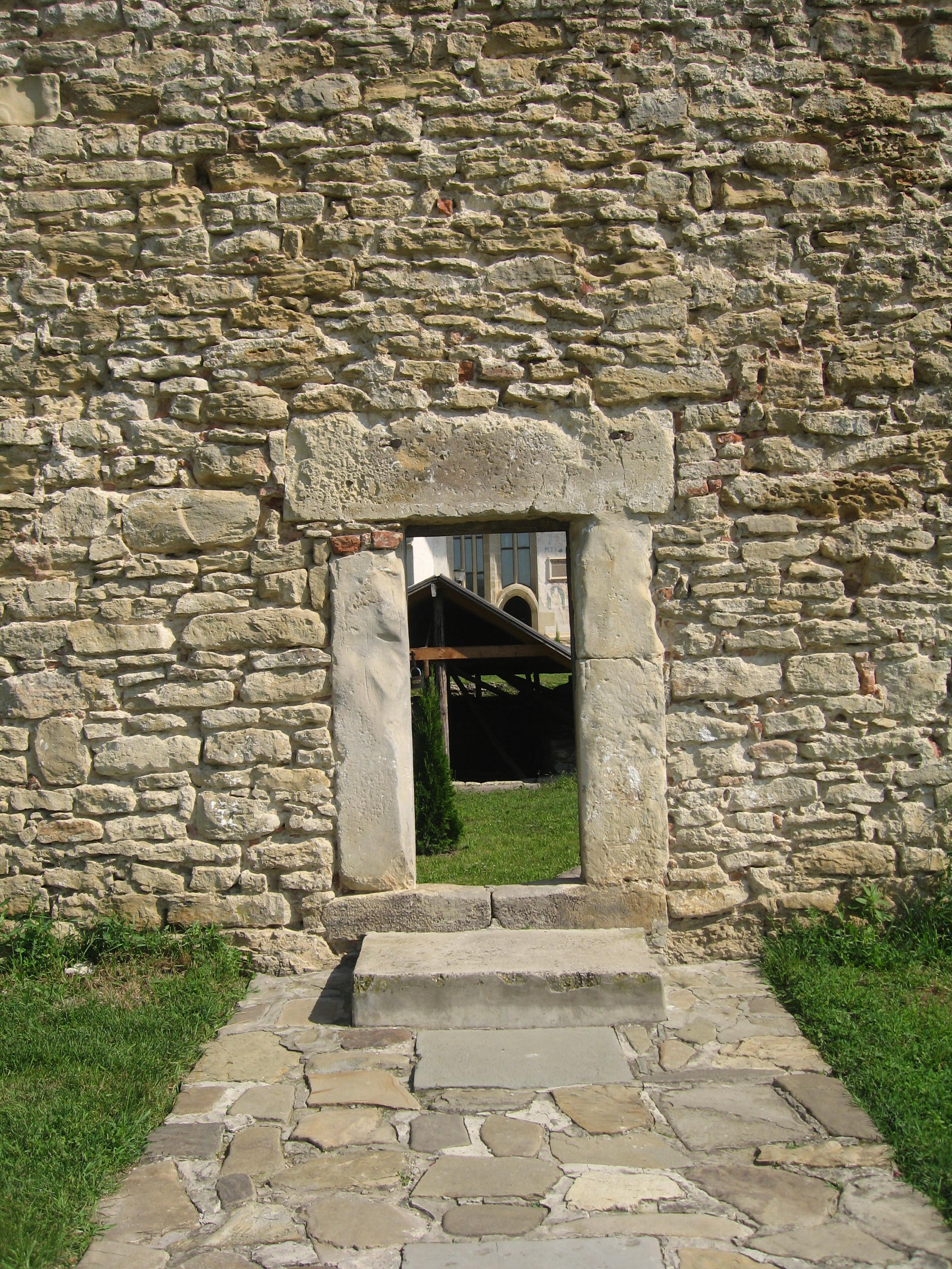 Probota Monastery